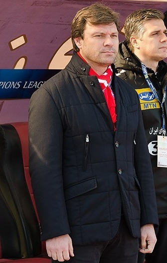 Ertuğrul Sağlam